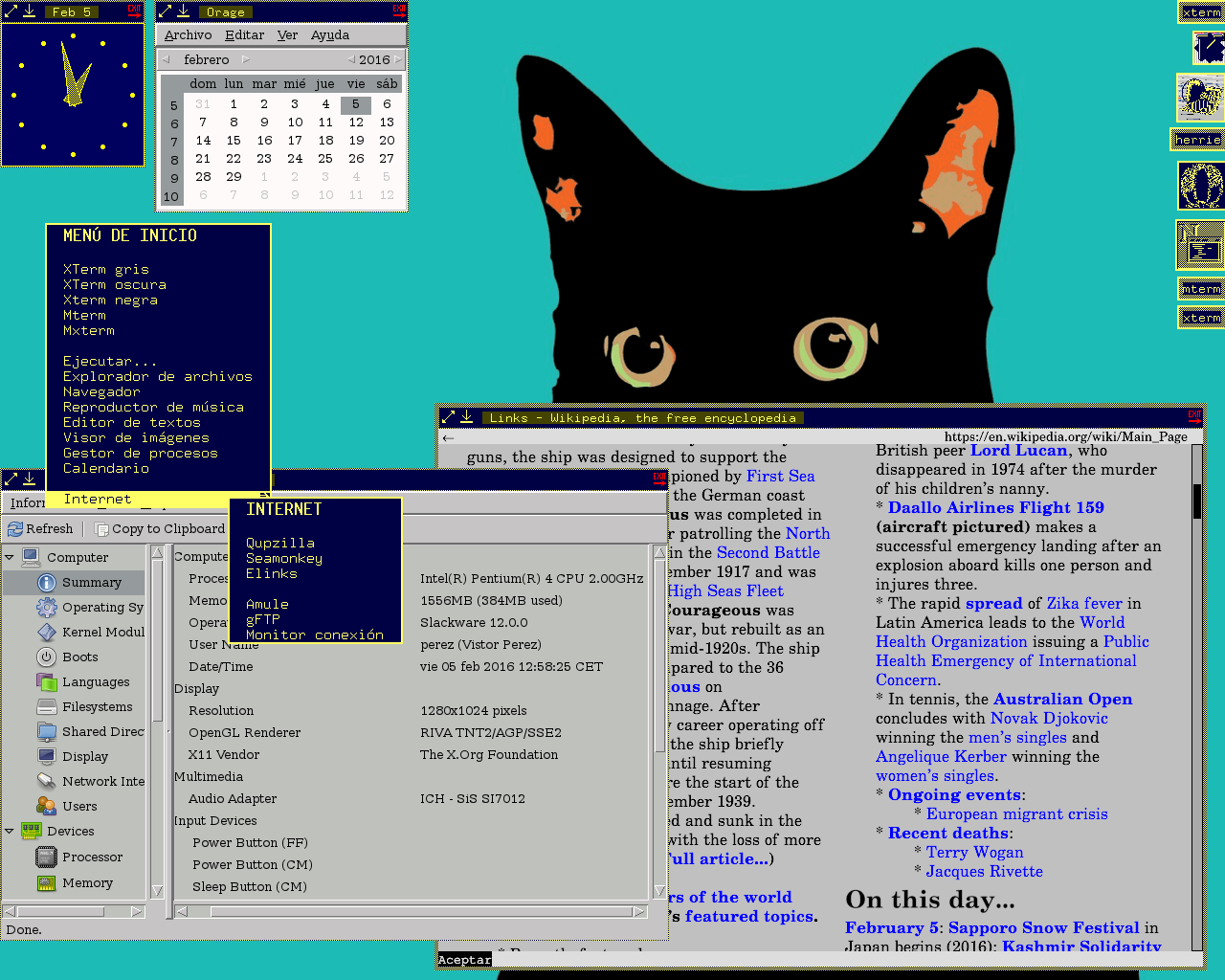 AWM (Ardent Window Manager) running in Vector Linux with 7.2. Compiled with GCC 3.3 (more recent versions of GCC don't work). There is a menu for launching programs, and iconified windows to the right.